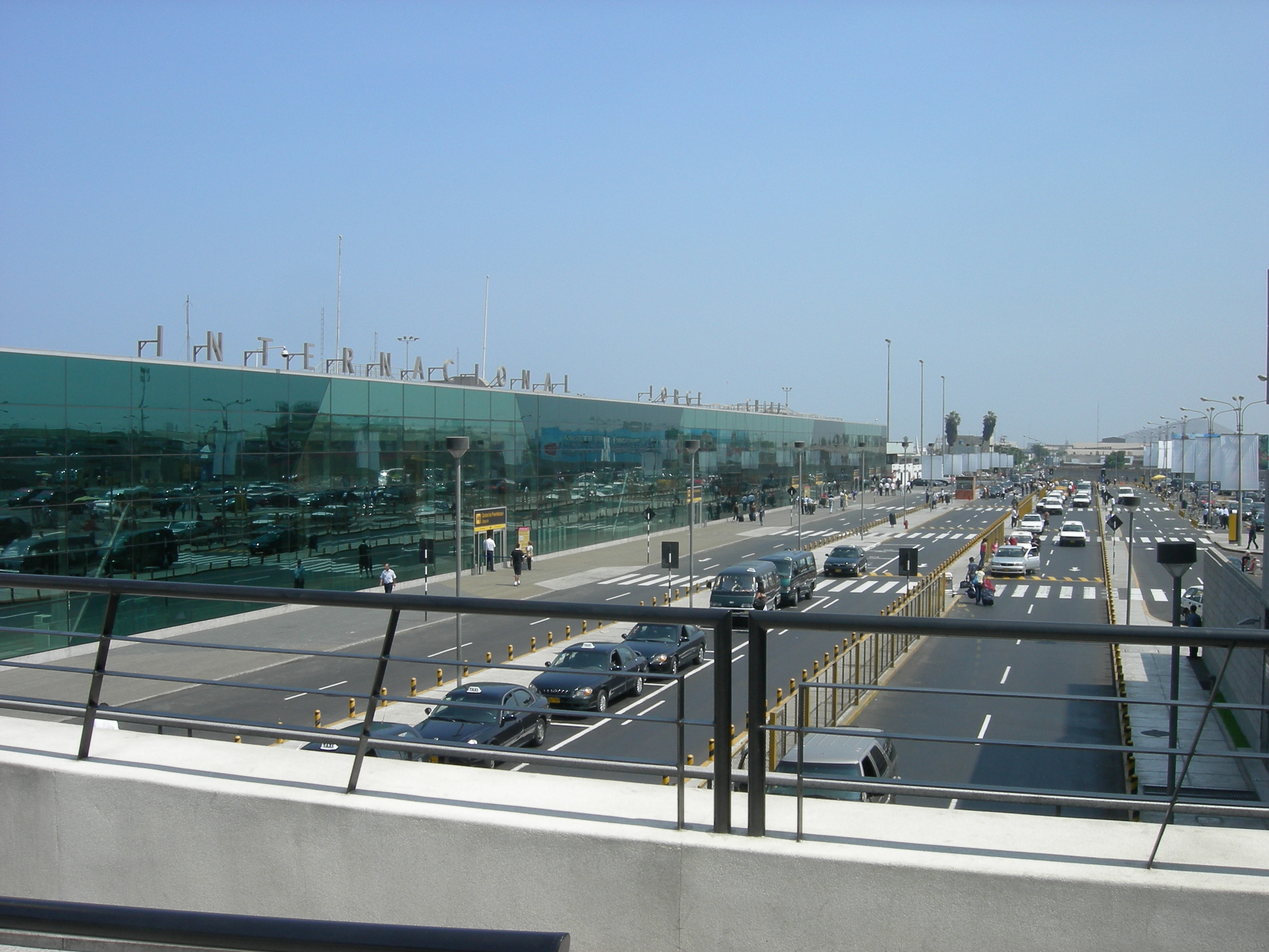 Jorge Chávez International Airport